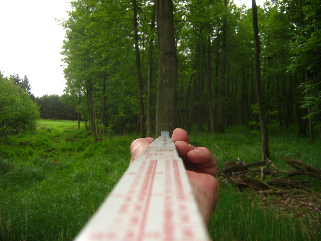 The Bitterlich stick is for measuring of basal areas of trees.